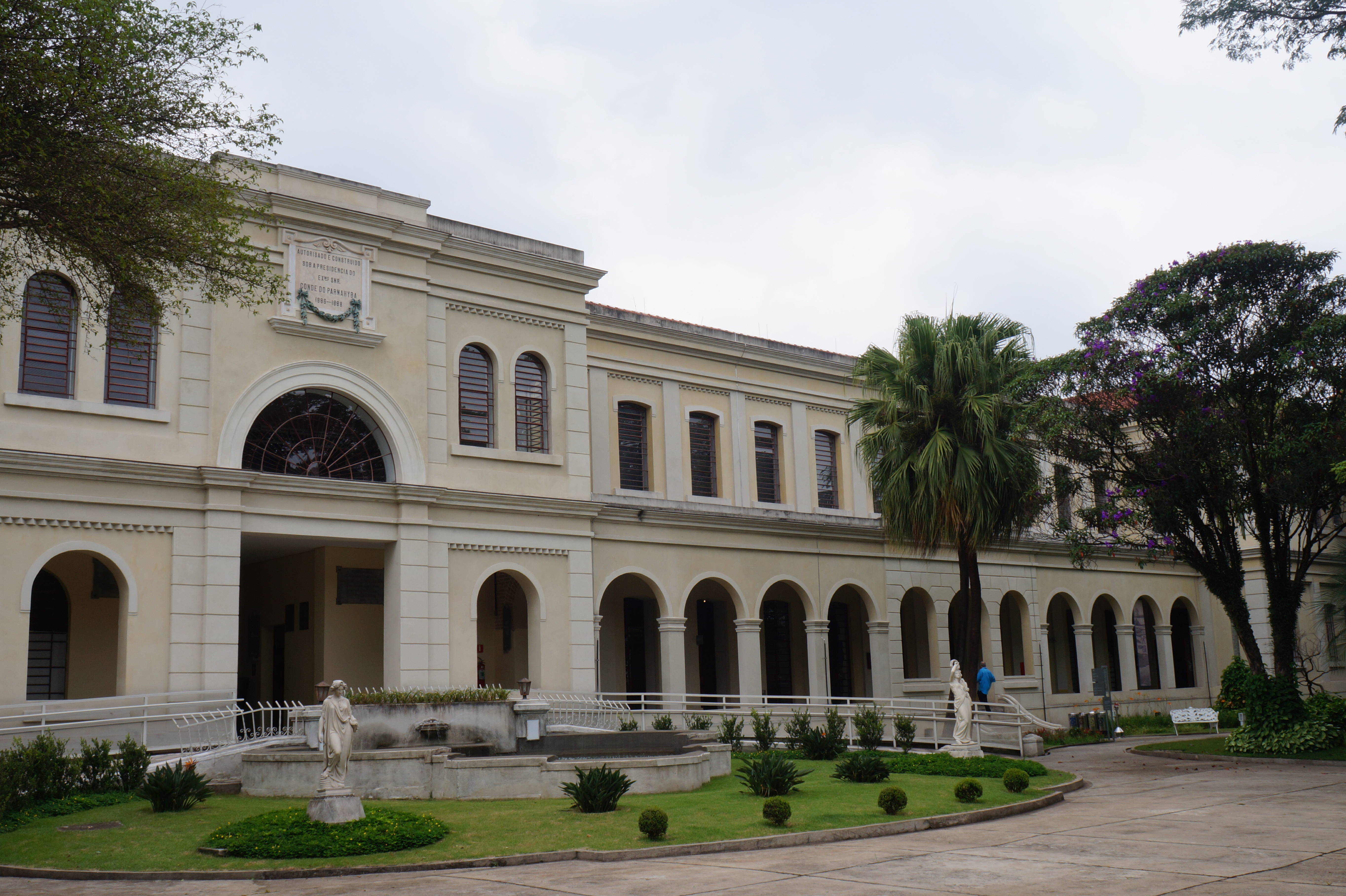 The Museum of Immigration of the State of São Paulo is a public institution located in the neighborhood of Mooca, in the city of São Paulo